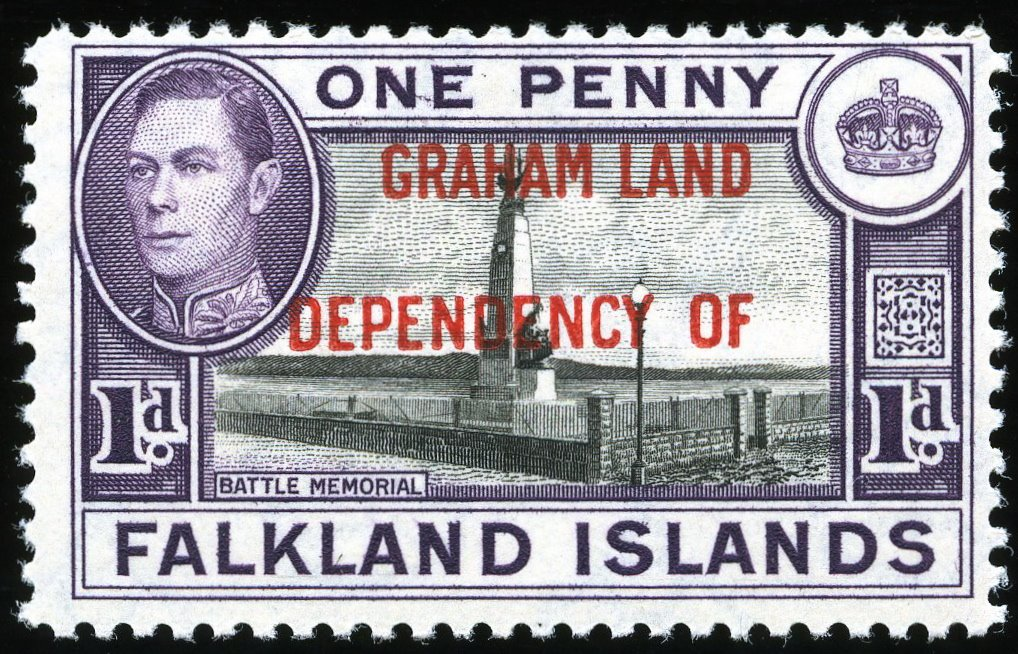 1-Penny stamp of the Falkland Islands, marked with Graham Land, photographed 2008